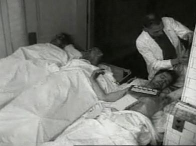 Bodies of Alcatraz inmates Hubbard (left), Coy (center), and Cretzer (right) in the San Francisco morgue — after the 1946 Battle of Alcatraz riot in the prison.